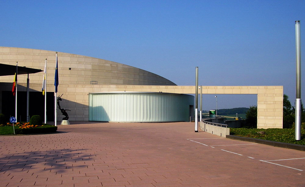 View of Holland Casino in Valkenburg aan de Geul, the Netherlands. Building designed by Arno Meijs.